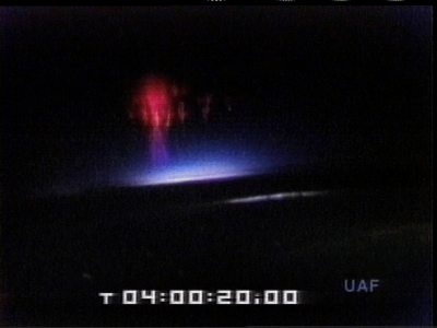 RedSprite ( upper-atmospheric lightning or transient luminous event).